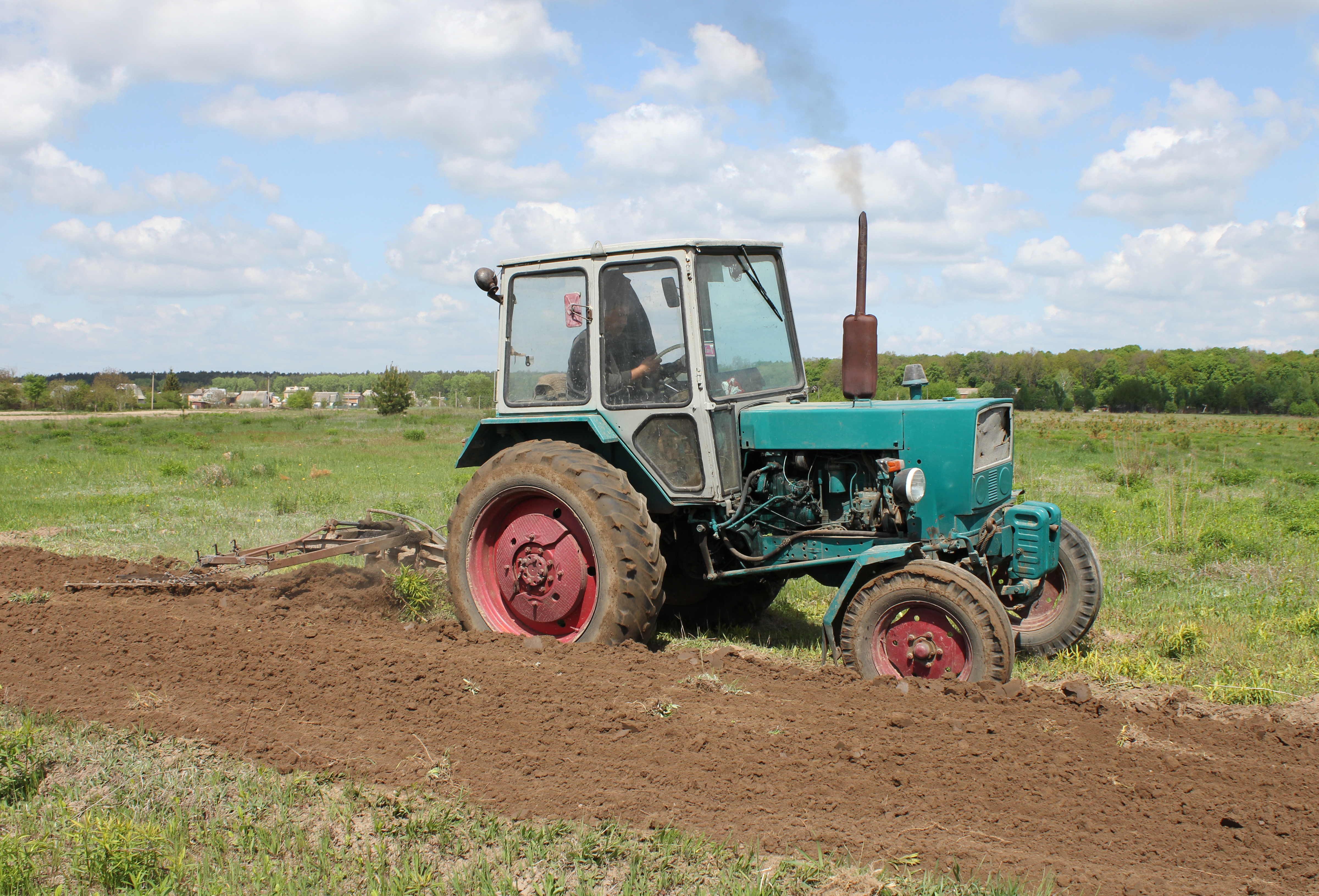 YuMZ-6KL tractor. Was produced in Yuzhmash in 1986. Plowing in spring. Photo taken in settlement Slavnoe near Vinnitsa, Ukraine.